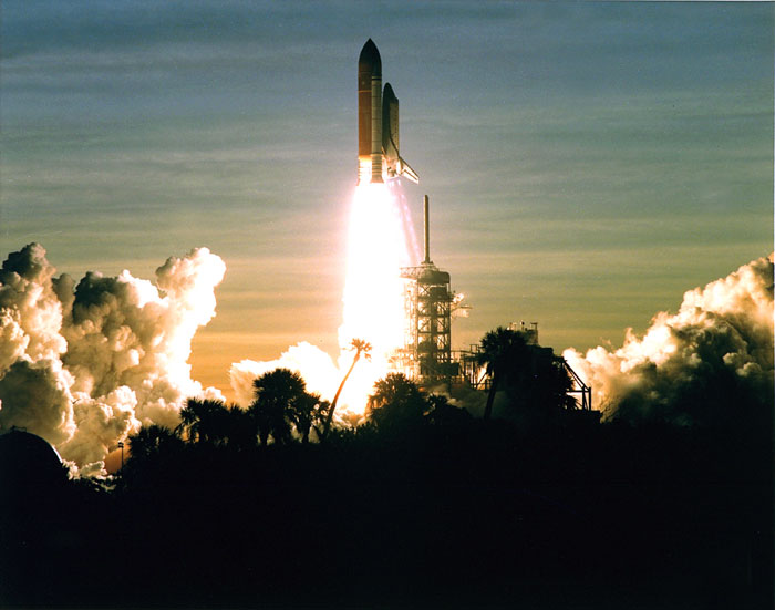 Kennedy Space Centre, Florida - Space Shuttle Discovery launches at the beginning of STS-60, the first mission in the Shuttle-Mir programme, carrying the first Russian cosmonaut ever to fly aboard the US Shuttle.